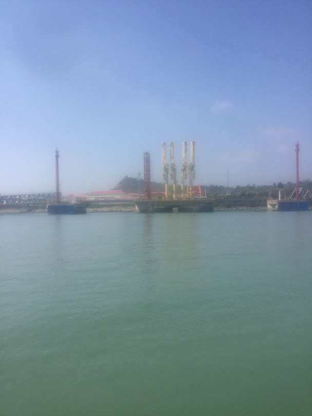 Myanmar China Petro Transportation 2017-03-05 - from Ferry